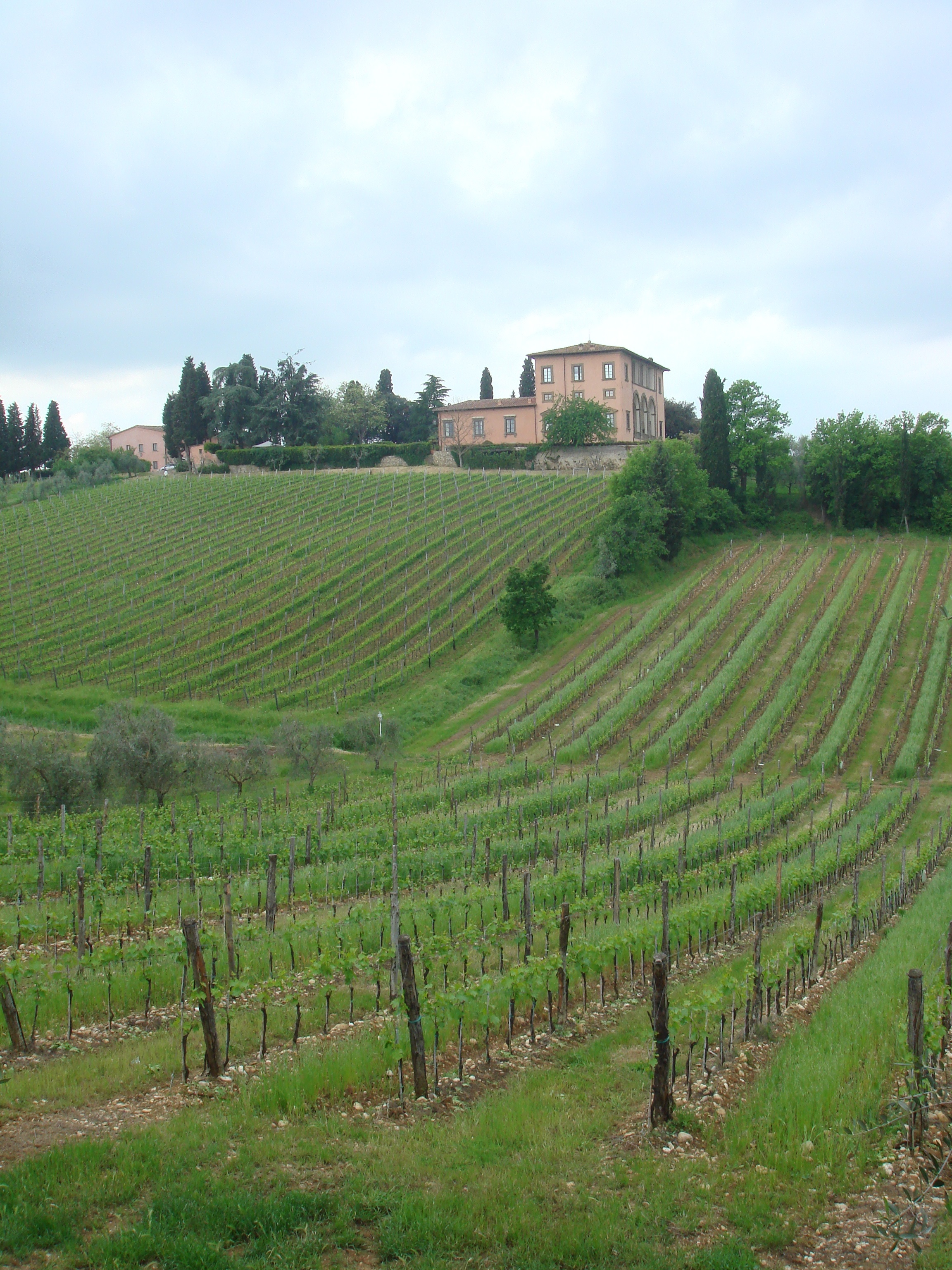 Grapevines in the Chianti wine zone of Tuscany in Central Italy